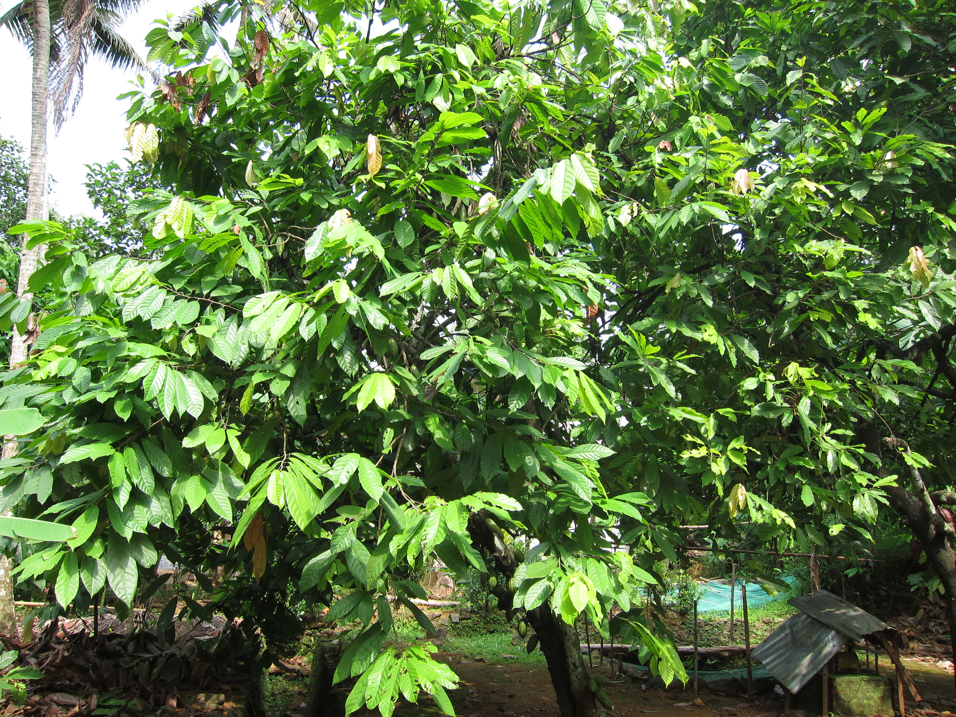 Coco Tree